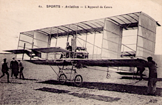 The Voisin de Caters No.1 Triplane.